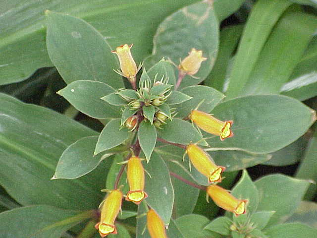 Species: Seemannia sylvatica (syn. Gloxinia sylvatica) (yellow-flowered form) Family: Gesneriaceae Image No. 3